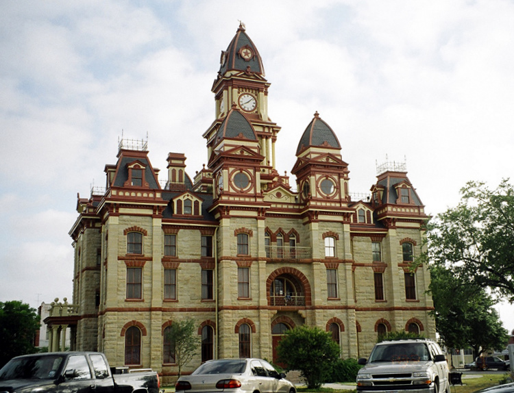 The Caldwell County, Texas courthouse located in Lockhart, Texas, United States. The courthouse and environs were listed on the National Register of Historic Places on January 3, 1978.